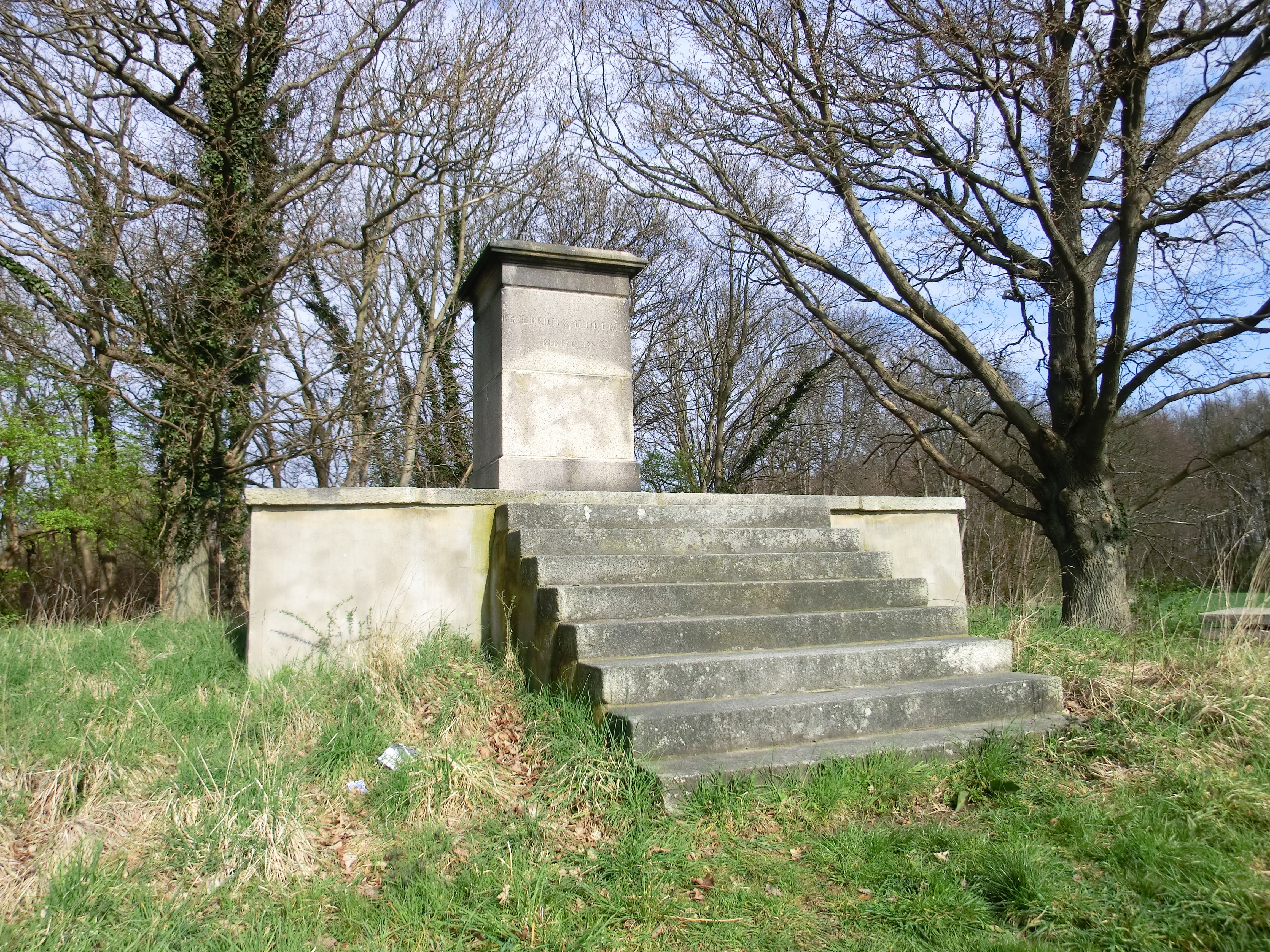 Base of Prussia Column in Neukamp, Island of Rügen